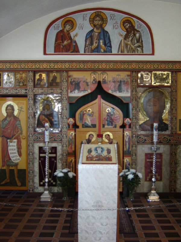 Iconostasis from the Orthodox monastery of Valamo